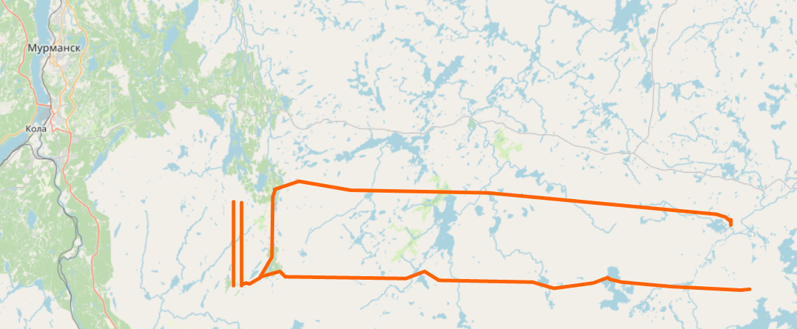 Track of the antenna system of ZEVS transmitter. The map was made with Openstreetmap-Data. Please correct, if required!